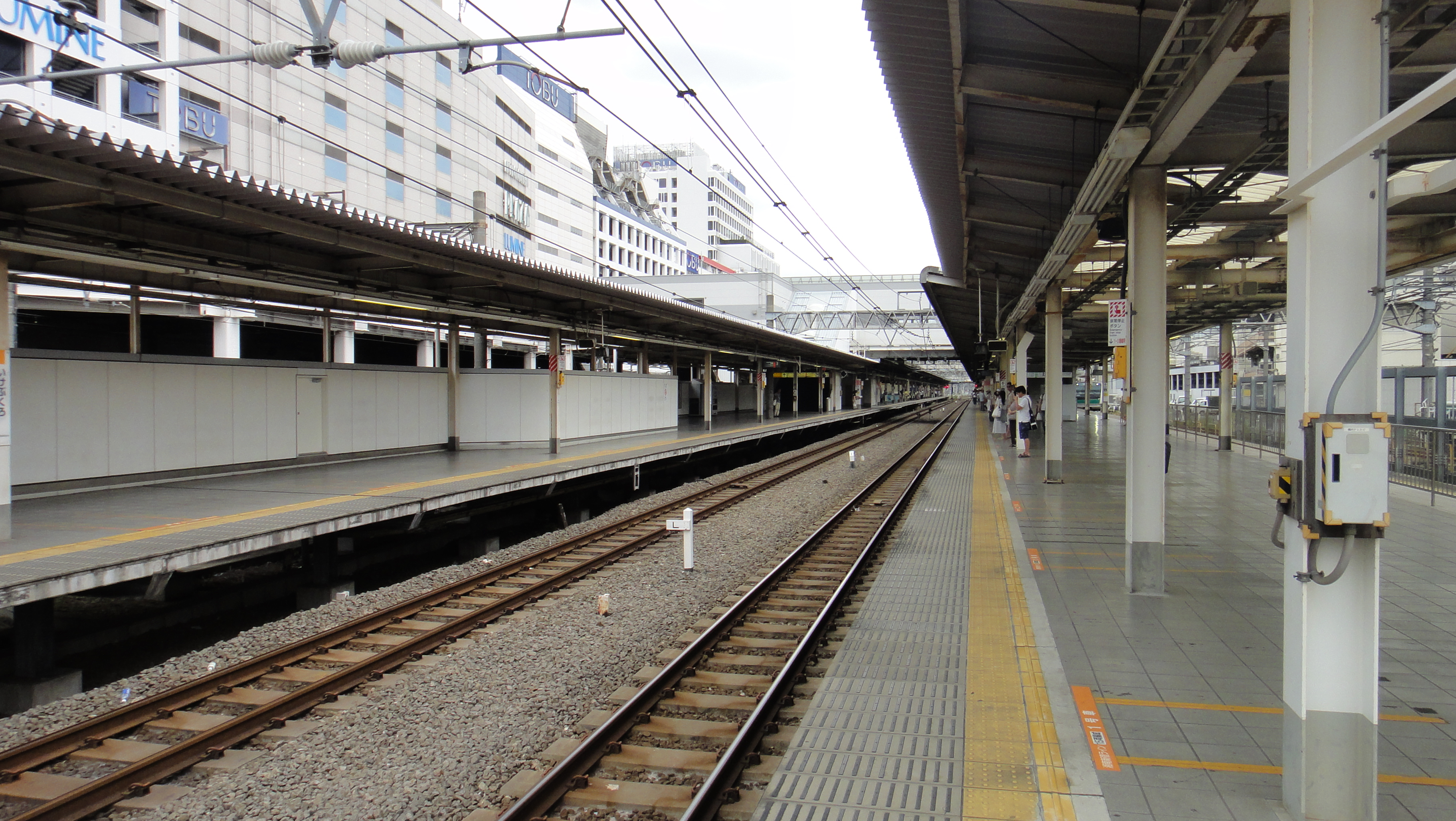 View from the south end of JR platform 1/2 (Saikyo Line on right) at Ikebukuro Station